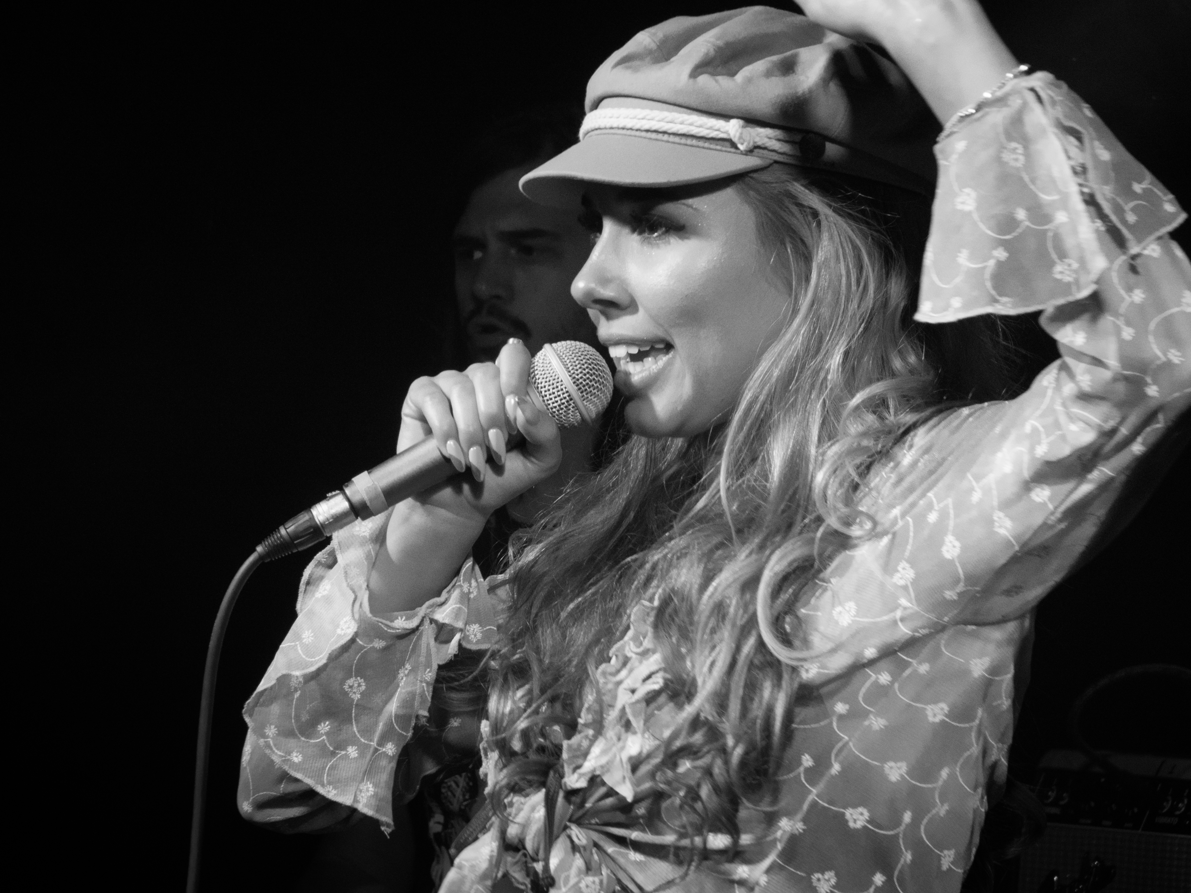 25.06.2017, berlin, music.